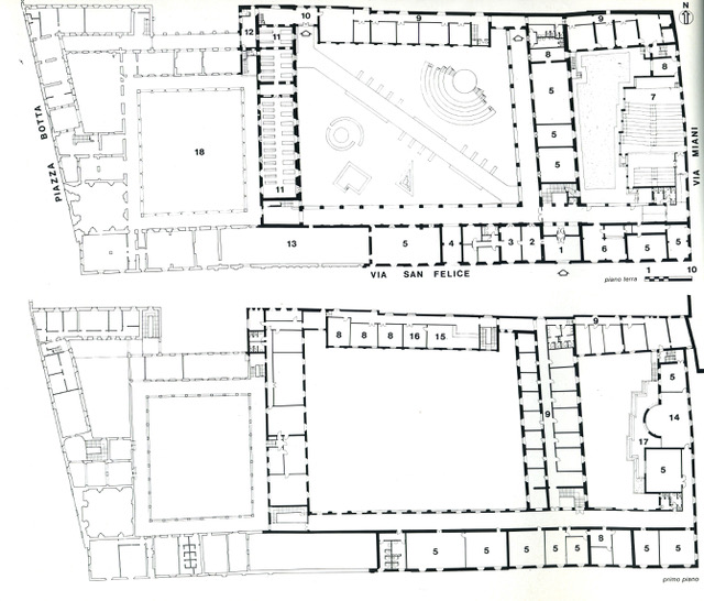 Eugenio Tedeschi's designs for the restoration of the Monastery of San Felice, Pavia, Italy.